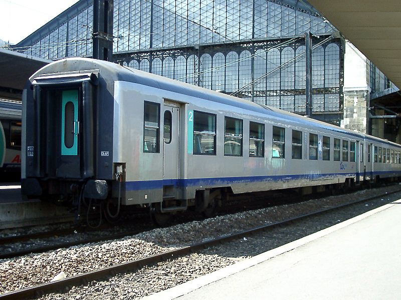 Voiture USI at Paris Austerlitz Sta., France.